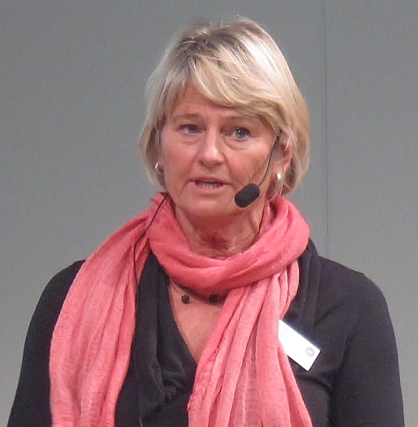 Swedish chemistry professor Pam Fredman.